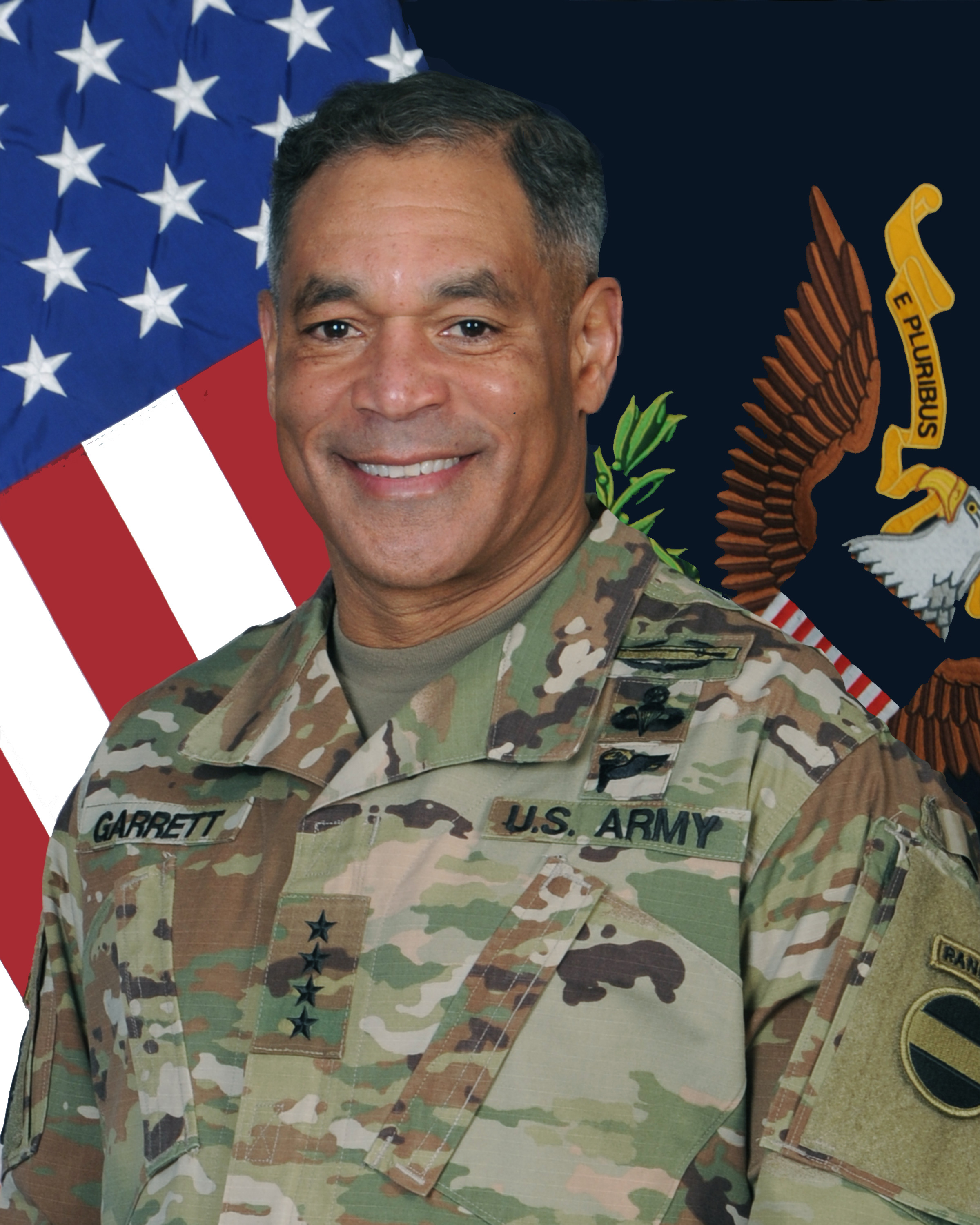 Gen. Michael X. Garrett, 23rd Commander of United States Army Forces Command